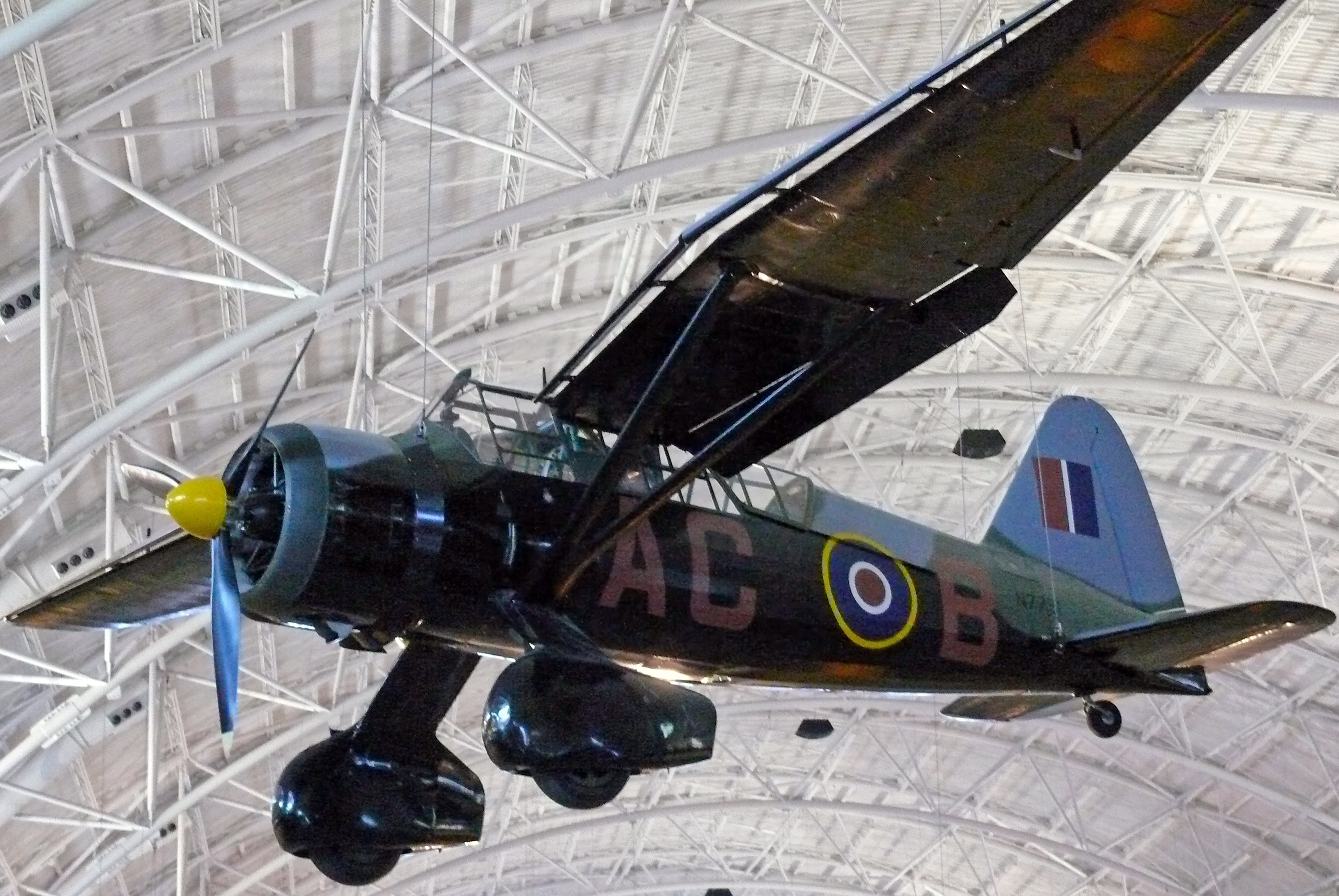 Westland Lysander in the National Air and Space Museum, Steven F. Udvar-Hazy Center, Washington DC. The Lysander was a British army co-operation and liaison aircraft produced by Westland Aircraft. It was used during the Second World War and was renowned for its ability to operate from small, unprepared airstrips. The aircraft's exceptional short-field performance made possible clandestine missions behind enemy lines that placed or recovered agents.